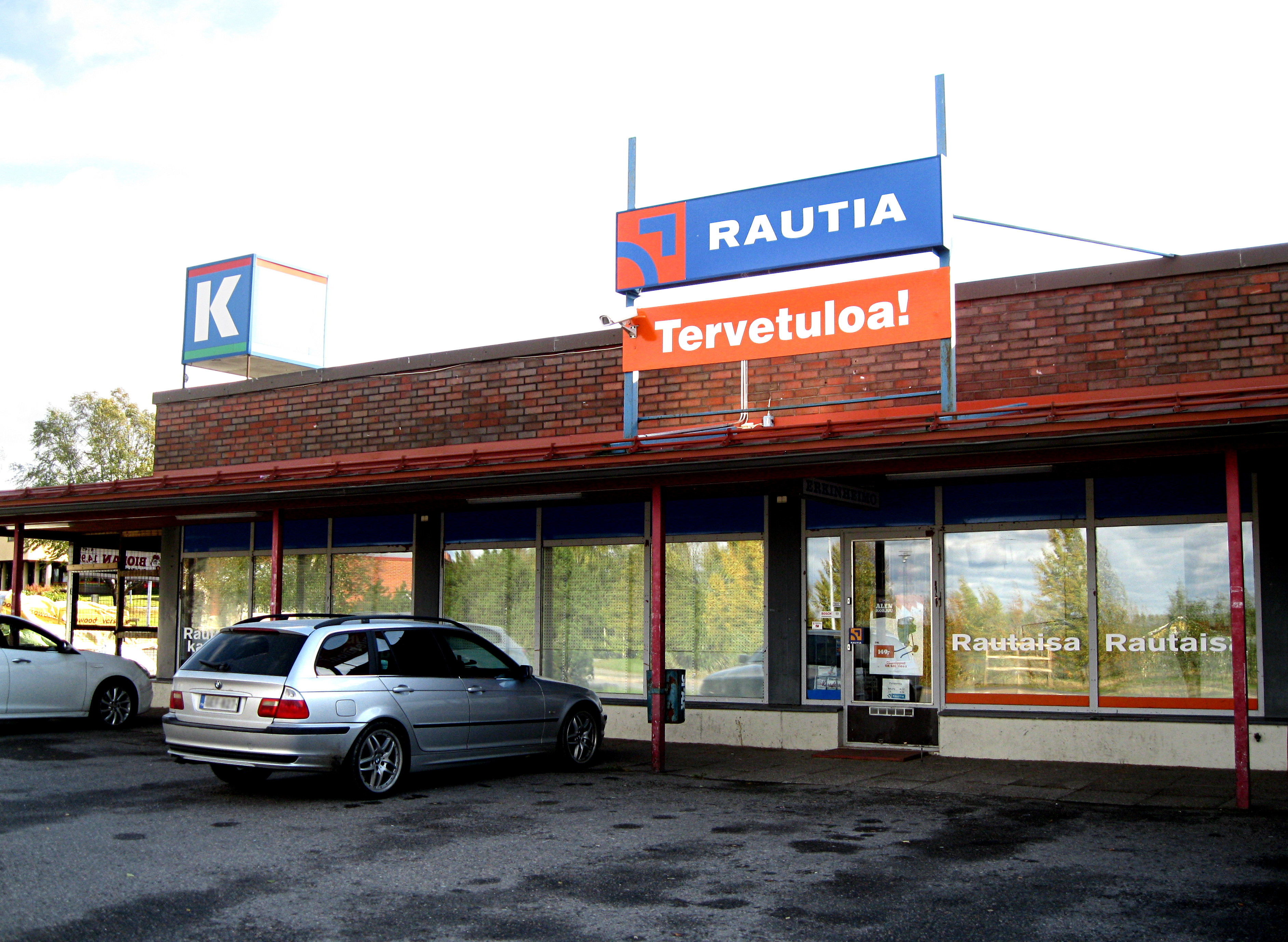 Rautia -hardware store in Lappajärvi, Finland.